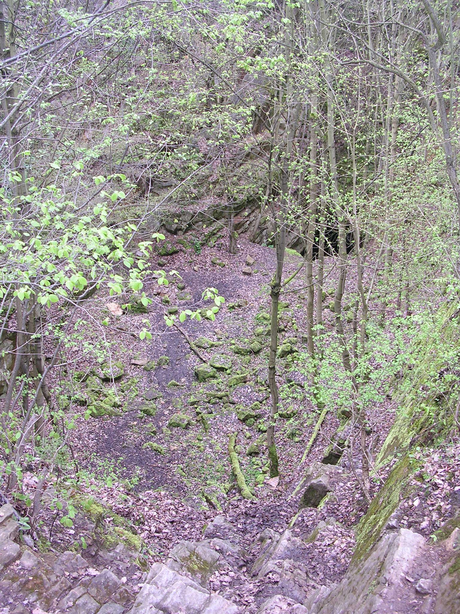 Quarries near Mořina, the Czech Republic.